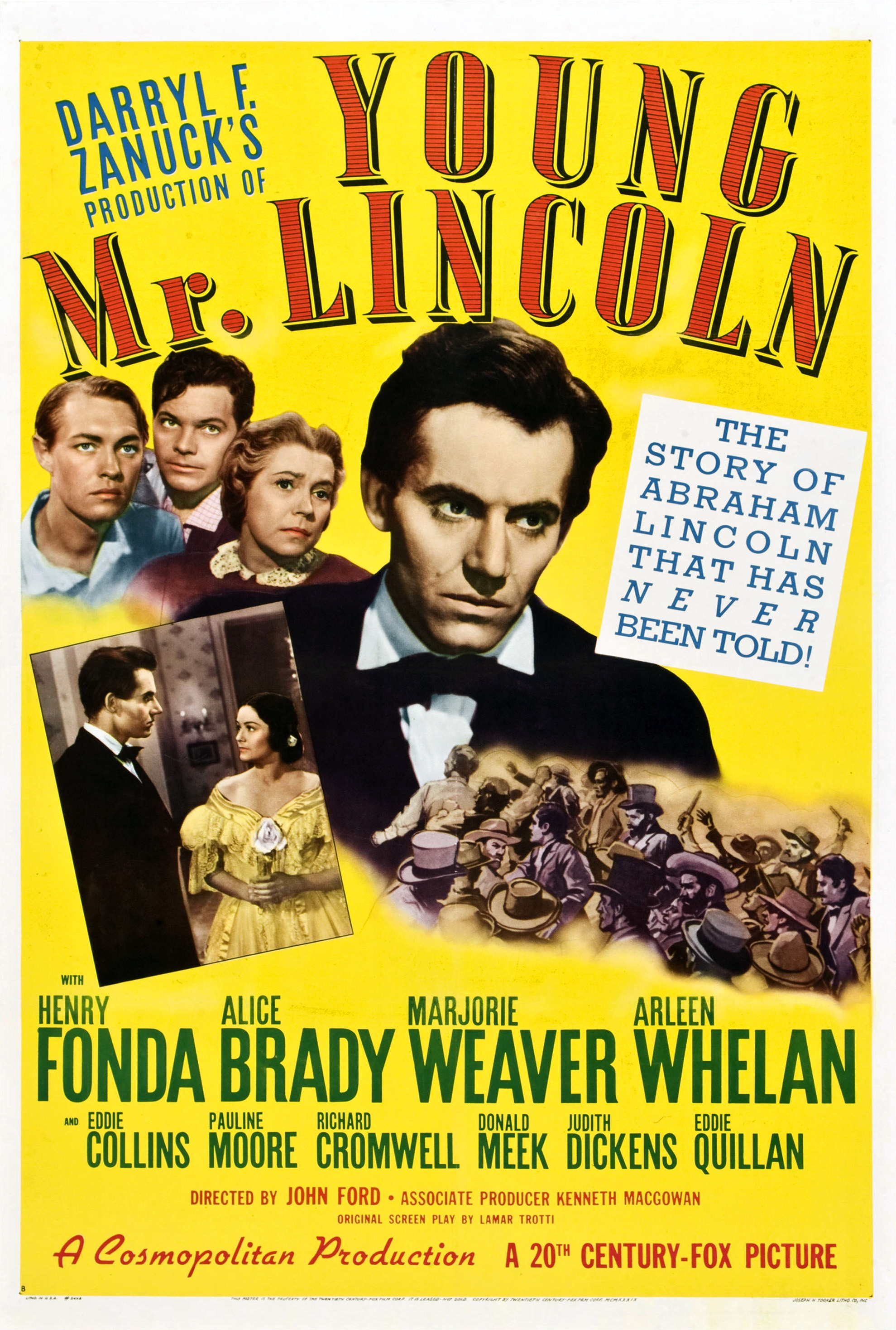 Theatrical release poster for the 1939 film Young Mr. Lincoln, about the early life of the American president of the same name. "Style B" one-sheet.